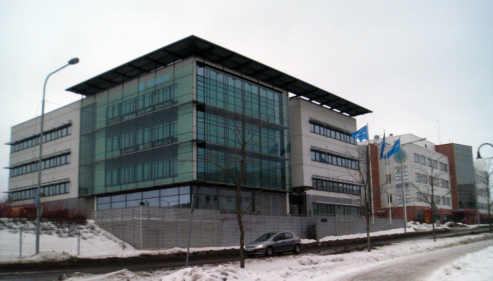 Hermia 11 building of Hermia science park (fi) located in Tampere Finland